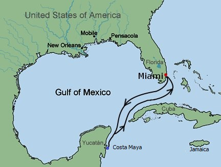 The map shows the route of the 2014 edition of 70000 Tons Of metal heavy metal cruise in the caribbean from Miami, USA to Costa Maya, Mexico